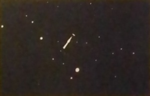 The star of 3297 Hong Kong 中文（香港）: 小行星3297